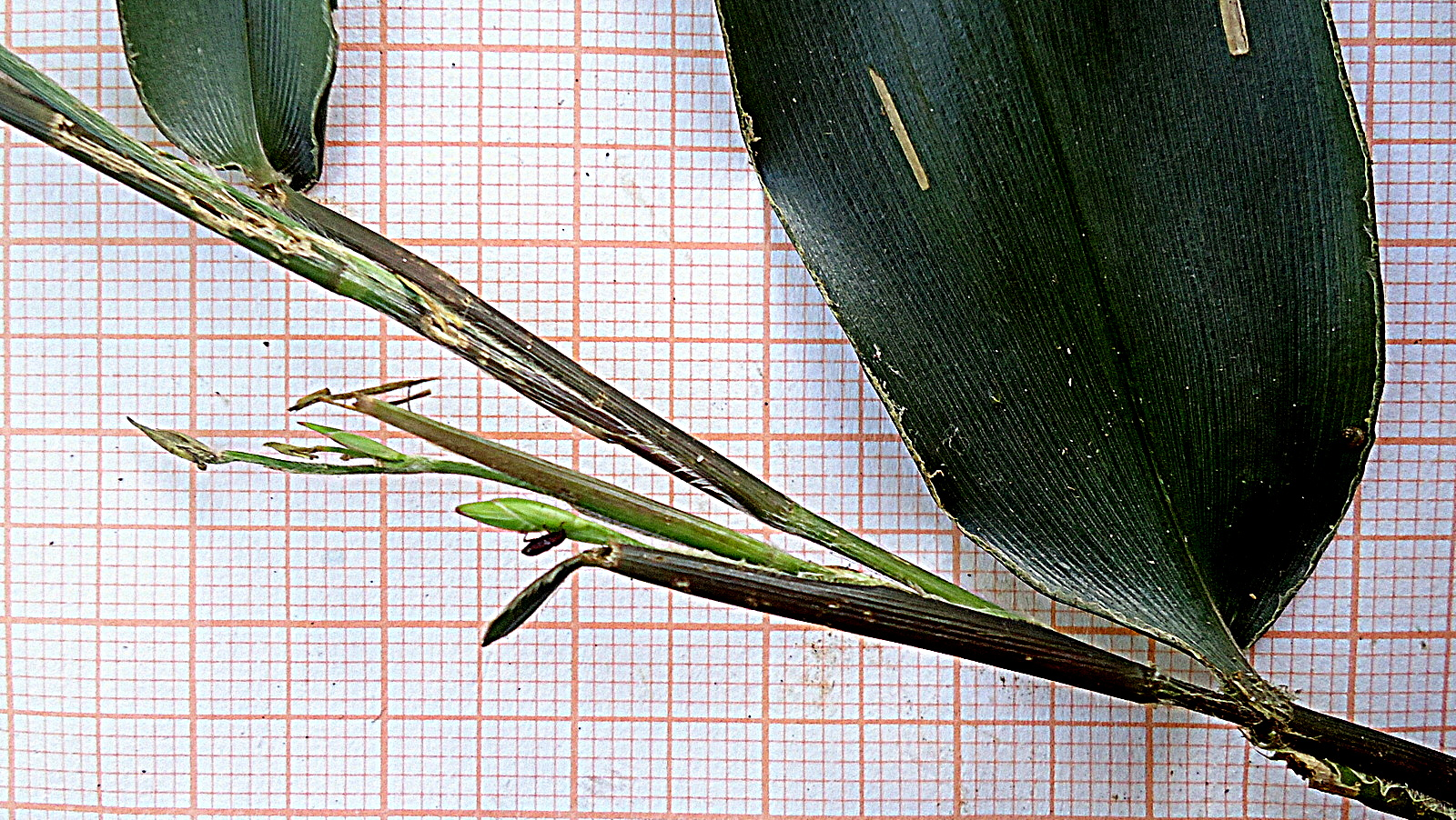 Ichnanthus nemoralis (Schrad. ex Schult.) Hitchc. & Chase